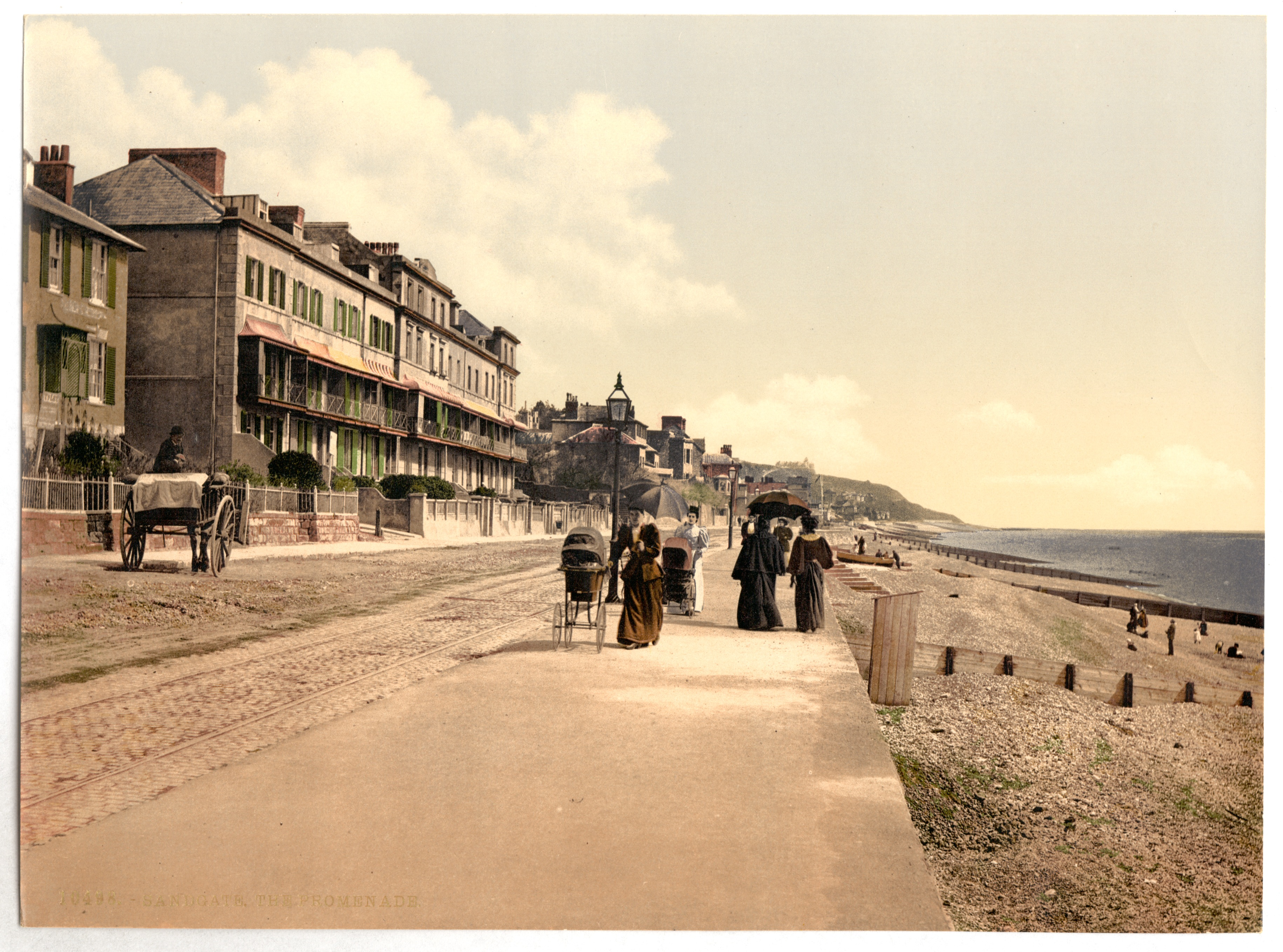 Forms part of: Views of the British Isles, in the Photochrom print collection.; More information about the Photochrom Print Collection is available at Title from the Detroit Publishing Co., Catalogue J-foreign section, Detroit, Mich. : Detroit Publishing Company, 1905.; Print no. "10498".